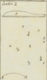 Field and bat diagram of "English Baseball" from J.C.F Gutsmuth's Games for Exercise and Relaxation of Body and Spirit (1796)